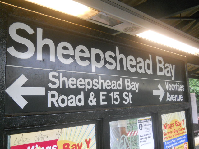 Sign for the Sheepshead Bay (BMT Brighton Line) Station